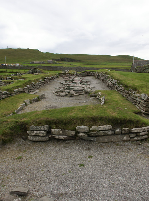 Jarlshof, Shetland, Scotland - Viking longhouse